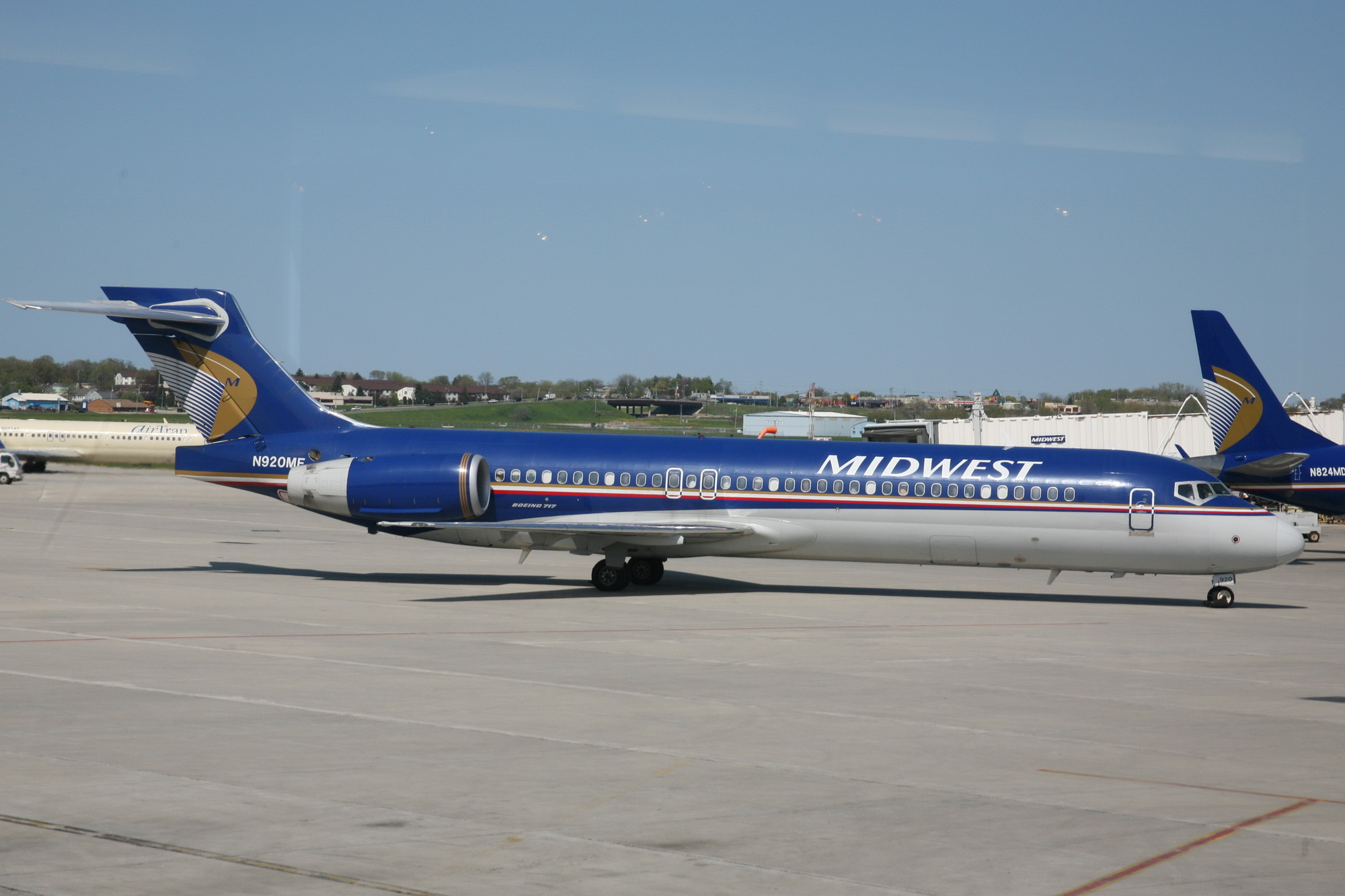 Midwest Airlines (formerly Midwest Express) is an American scheduled passenger airline based in Milwaukee, Wisconsin, operating from the city's General Mitchell International Airport. Midwest Airlines is largely known for its Signature Service all business class seating arrangement, which includes leather seats arranged 2-by-2 and the iconic fresh-baked chocolate-chip cookies. In early 2008 the airline's publicly traded parent Midwest Air Group was taken over by the private investment firm TPG Capital with a minority investment by Northwest Airlines (now Delta Air Lines). The new owners halted airline operations by its Skyway Airlines subsidiary and contracted out all Midwest Connect flights. Skyway now provides ground services for Midwest flights.